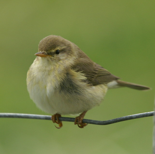 Willow Warbler (Phylloscopus trochilus), Skaw Willow Warblers are one of the commonest transaharan migrants over much of Britain, but in Shetland they are only migrants, albeit one of the commonest whenever there are south-easterly winds, in either spring nor autumn.